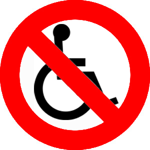 Sign at theme park attractions: inaccessible to wheelchair users. Non-accessibility